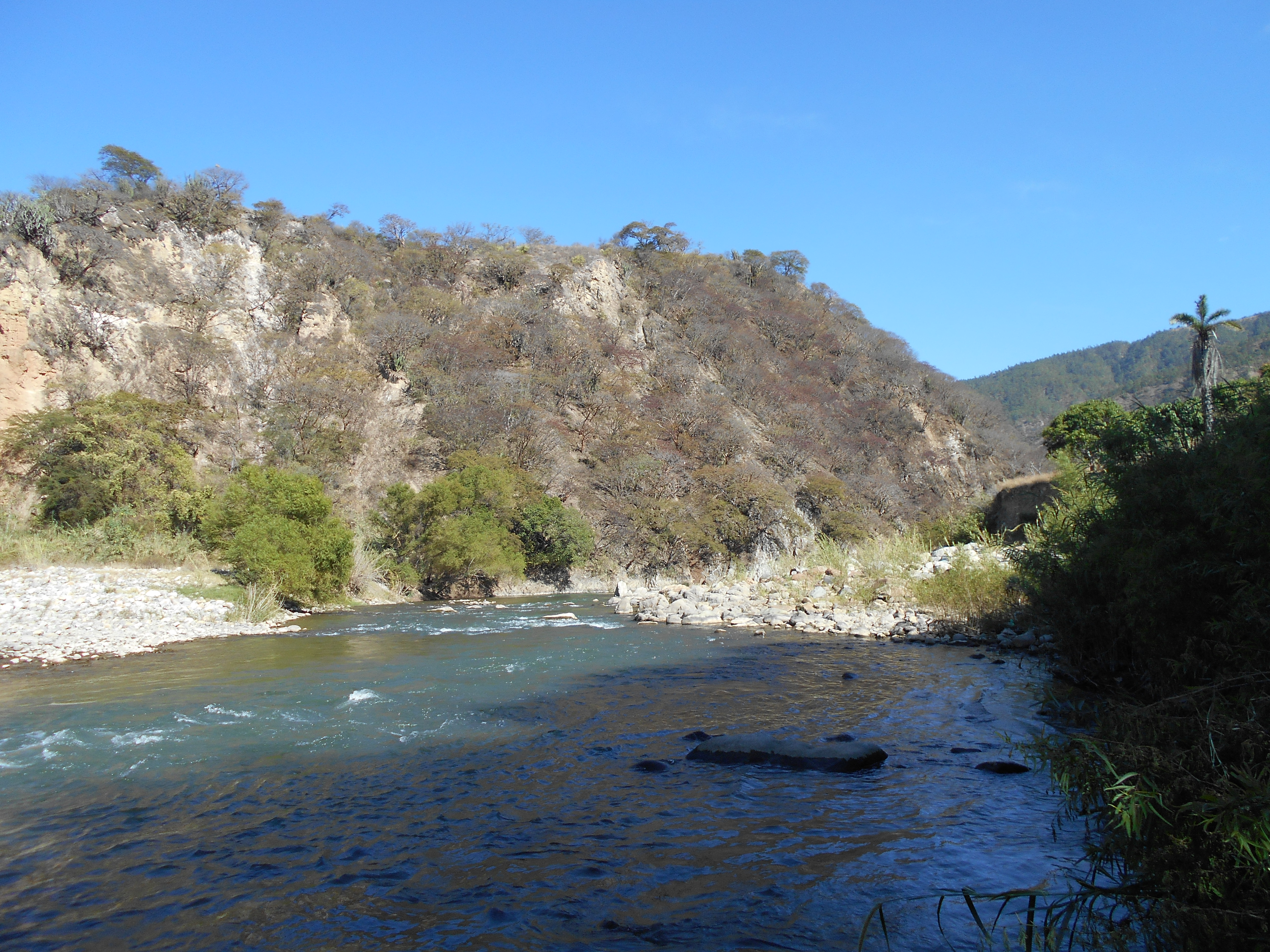 The Río Negro at Los Trapichitos, near Sacapulas, Quiché department, Guatemala. This headland in a curve of the Río Negro supports the ancient Maya ruins of Chutixtiox.